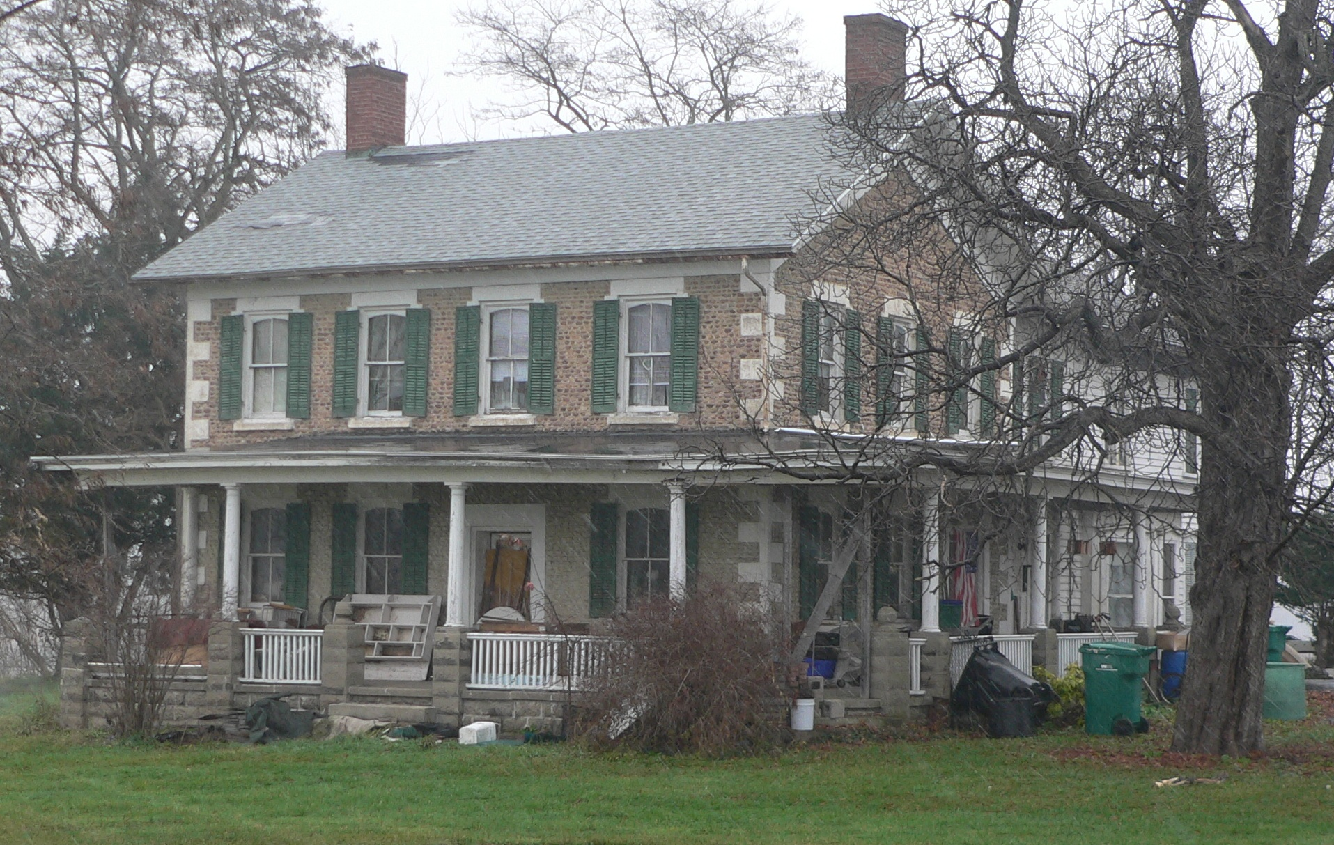 Gates-Livermore Cobblestone Farmhouse, located at 4389 Clover Street in Mendon, New York.